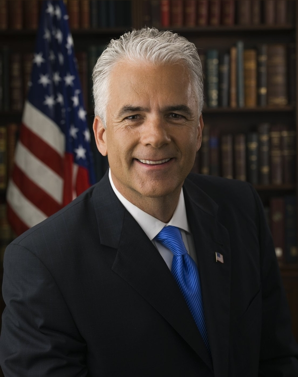 Official photo of United States Senator John Ensign (R-NV).